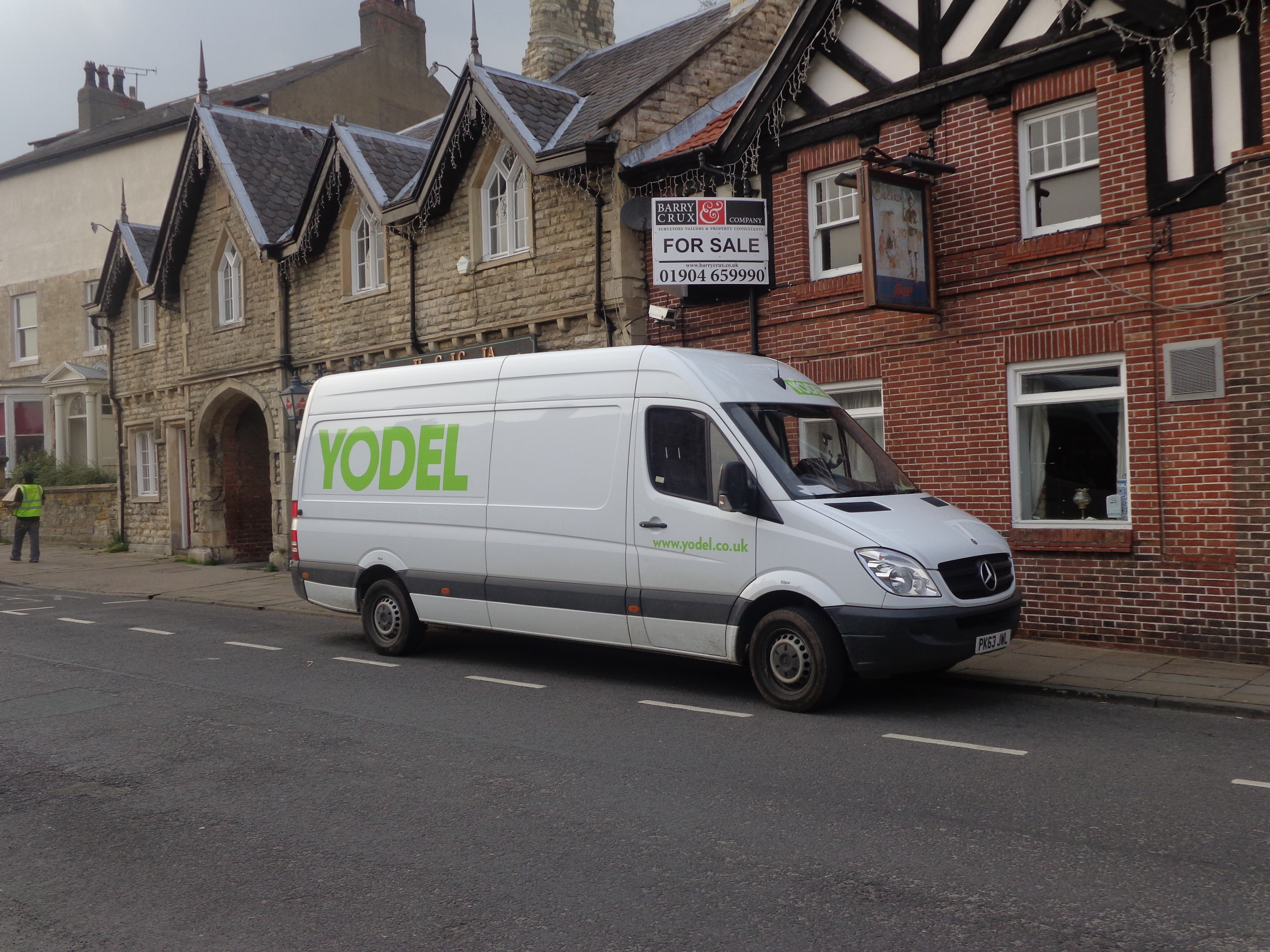 Yodel van outside the Calcaria, Westgate, Tadcaster, North Yorkshire. Taken on the evening of Thursday the 24th of April 2014.